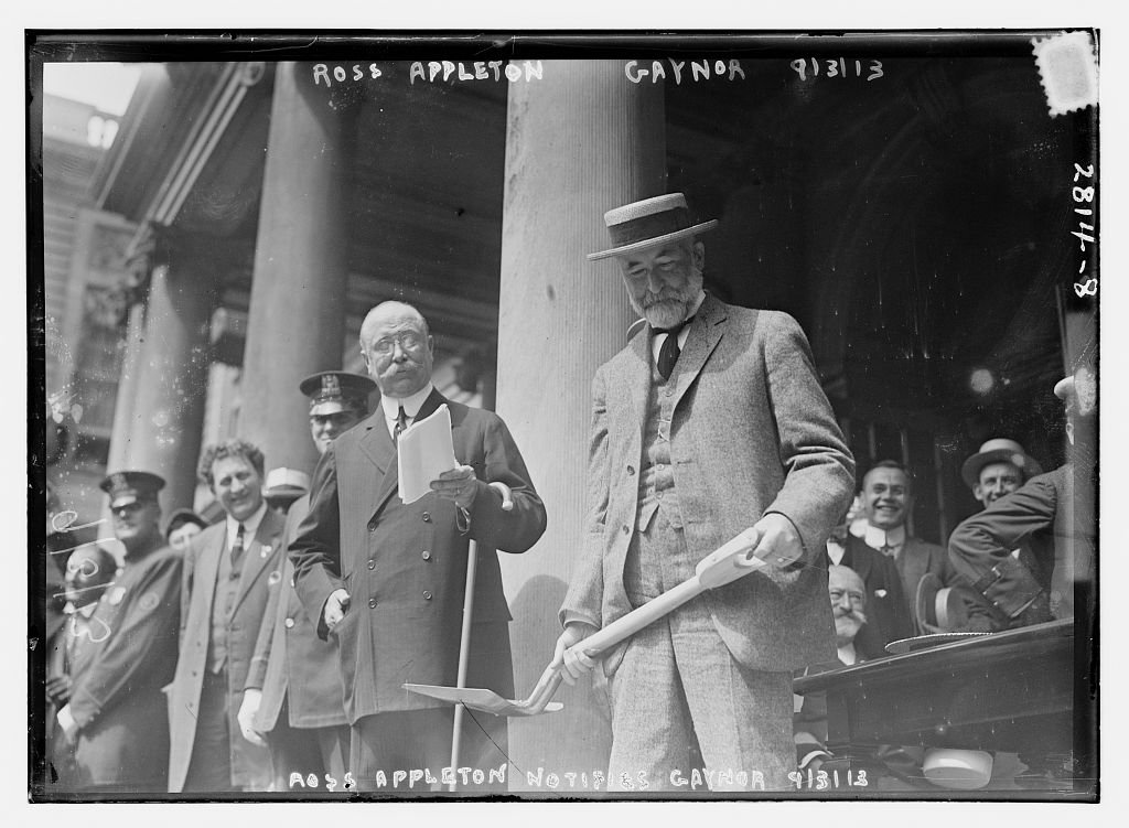 Bain News Service, publisher. Ruel Ross Appleton notifies Mayor Gaynor [between ca. 1910 and ca. 1915] 1 negative : glass ; 5 x 7 in. or smaller. Notes: Title from unverified data provided by the Bain News Service on the negatives or caption cards. Forms part of: George Grantham Bain Collection (Library of Congress). Format: Glass negatives. Repository: Library of Congress, Prints and Photographs Division, Washington, D.C. 20540 USA, General information about the Bain Collection is available at Persistent URL: Call Number: LC-B2- 2814-8 Bain News Service publisher.